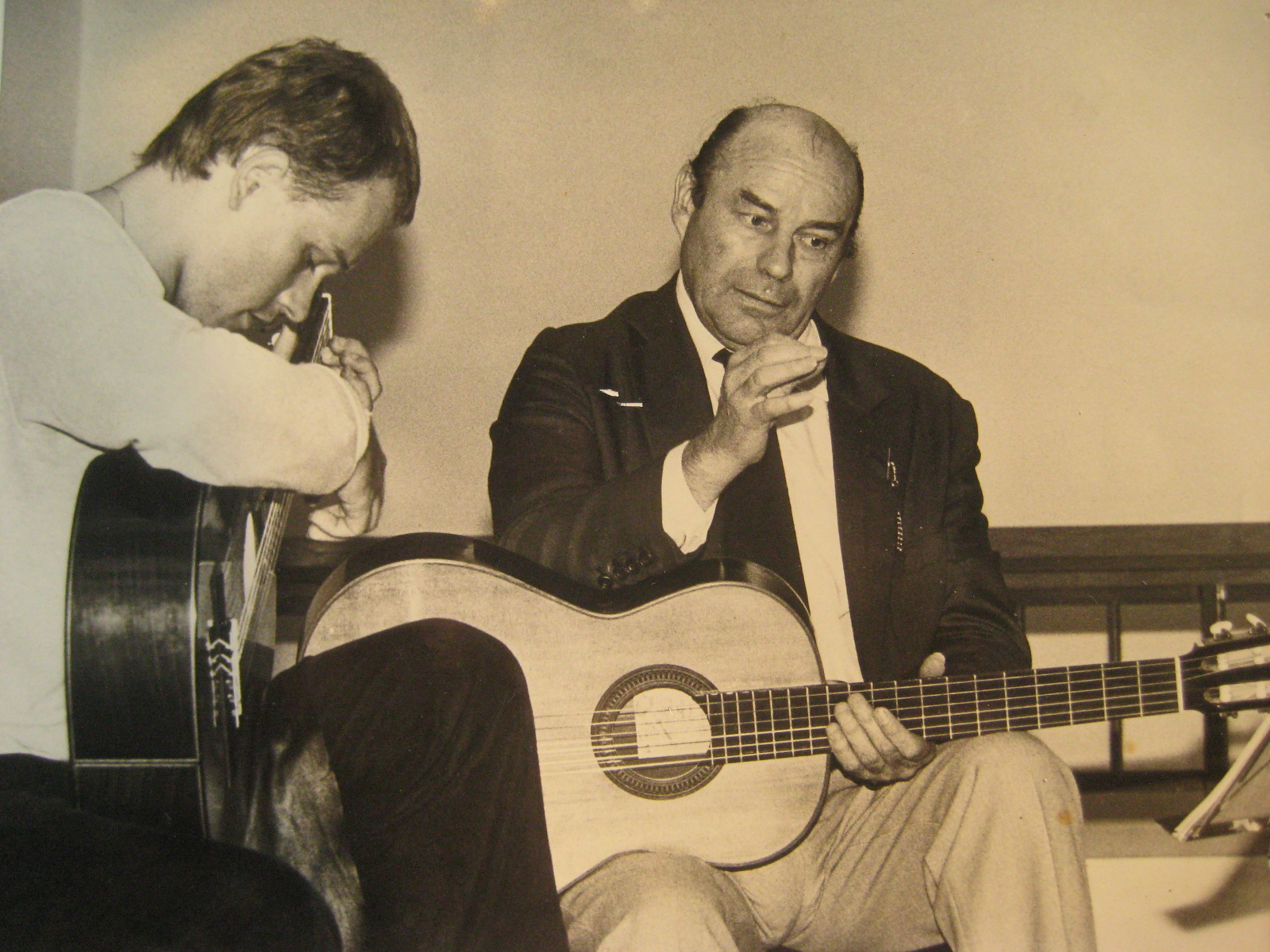 Julian Bream in Liechtenstein July 1985